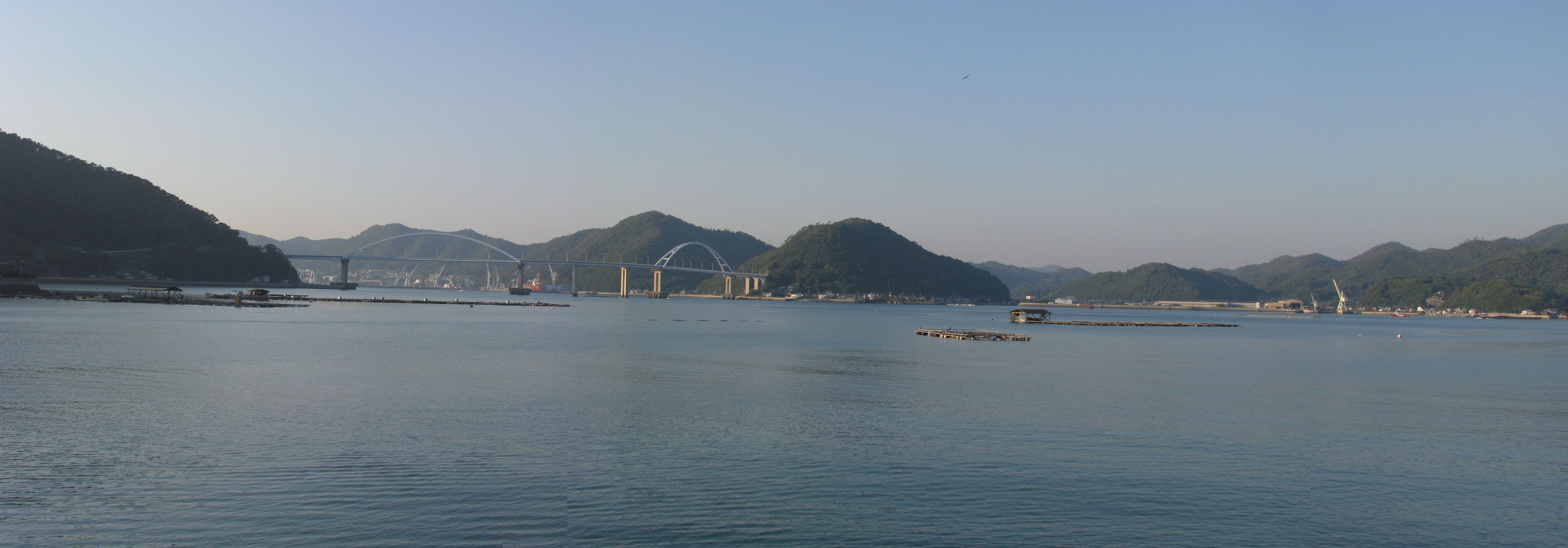 The Utsumi. This place is Fukuyama, Hiroshima Prefecture, Japan.